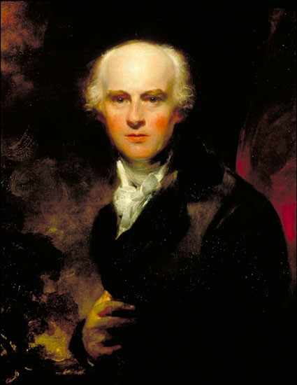 Portrait of Joseph Farington